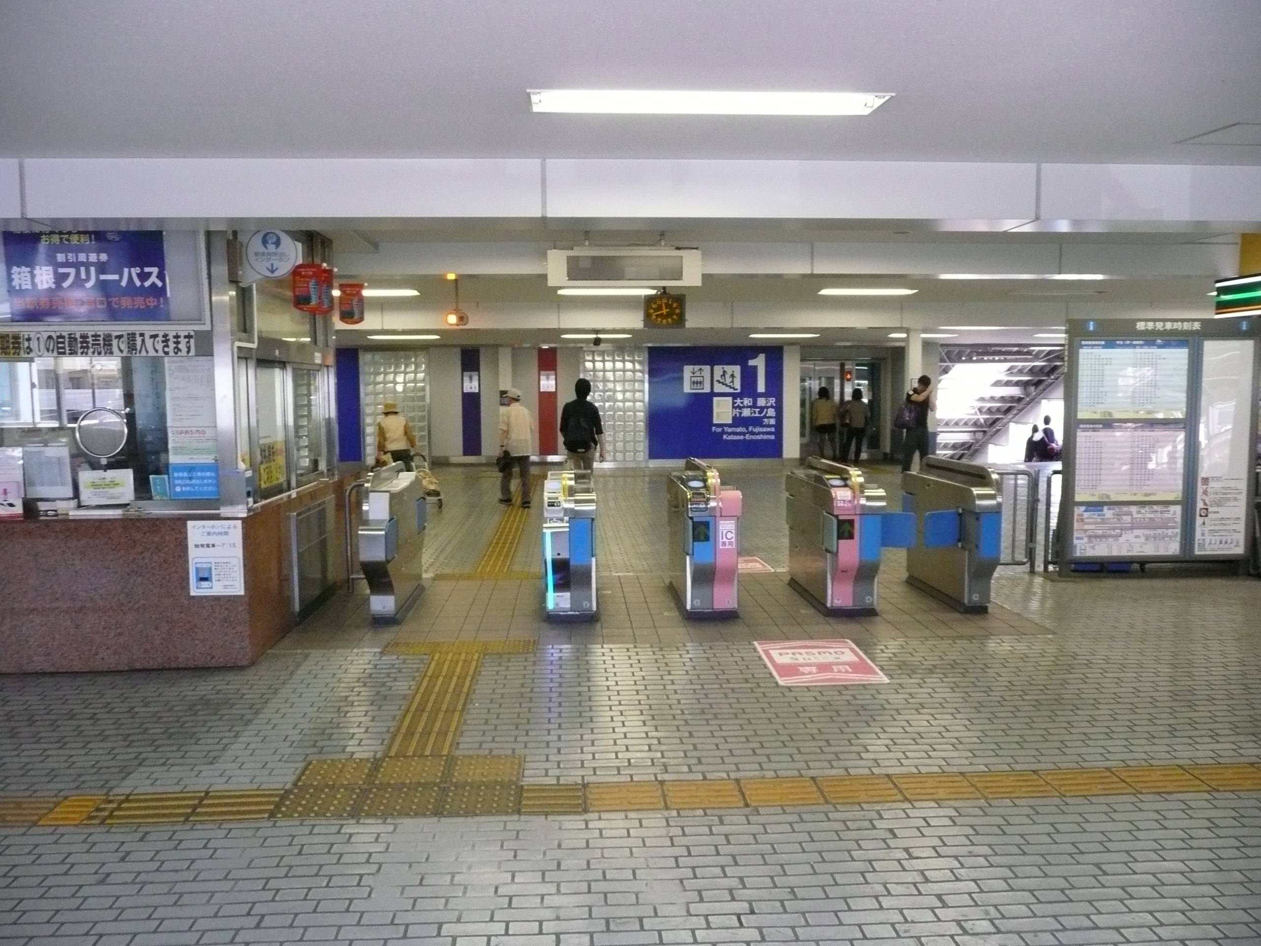 Ticekt gate of Tsuruma Station